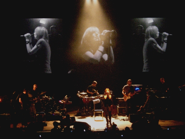 Portishead playing live in Wolverhampton Civic Hall